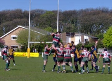 Waterloo lineout 2005/2006 taken at Blundellsands.